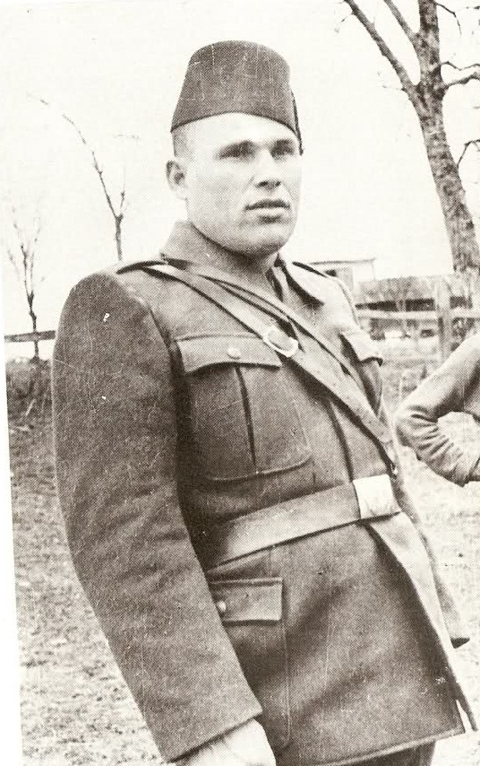 Croatian Home Guard officer and Yugoslav Partisan Husein Miljković.